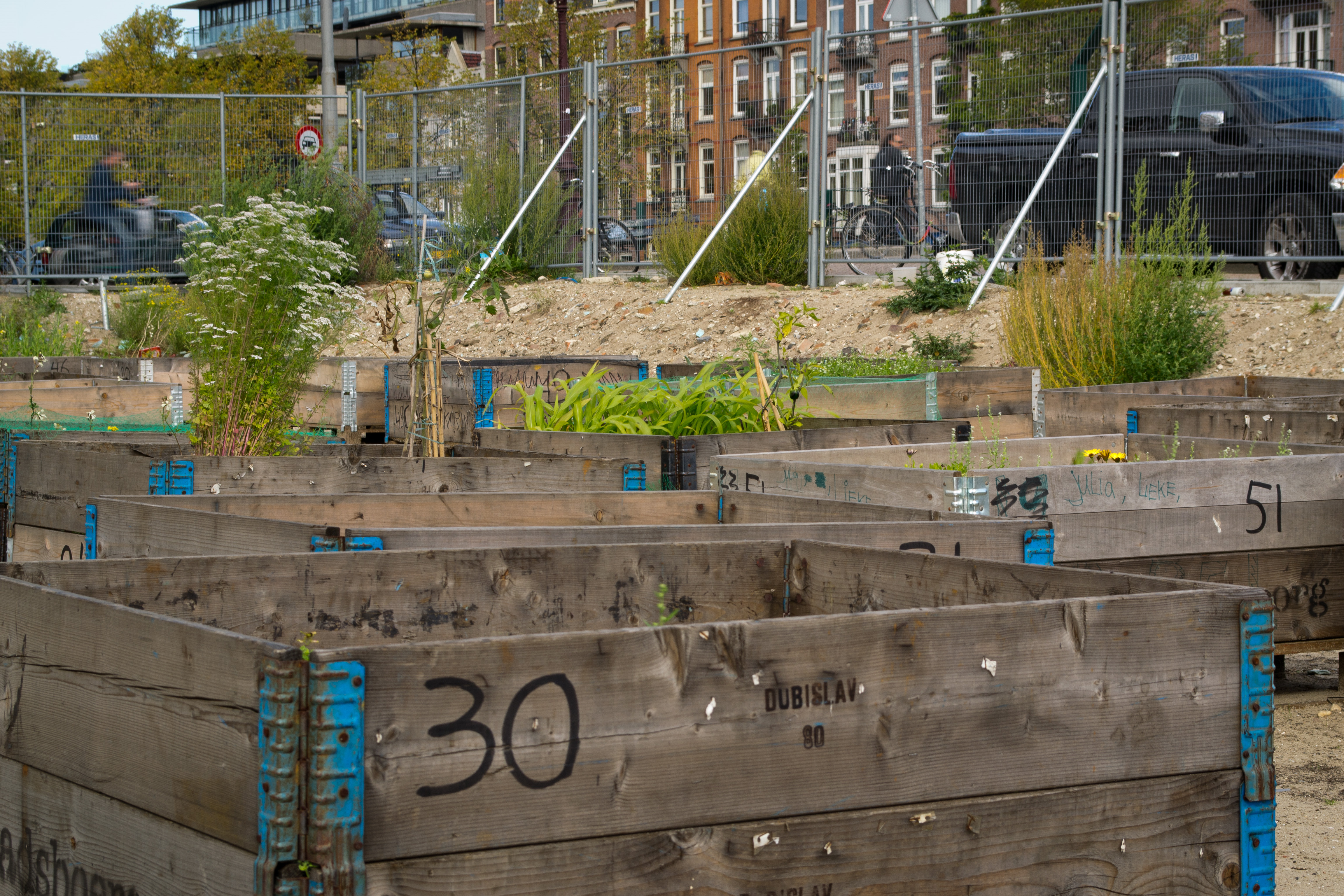 A small urban agriculture project in Amsterdam